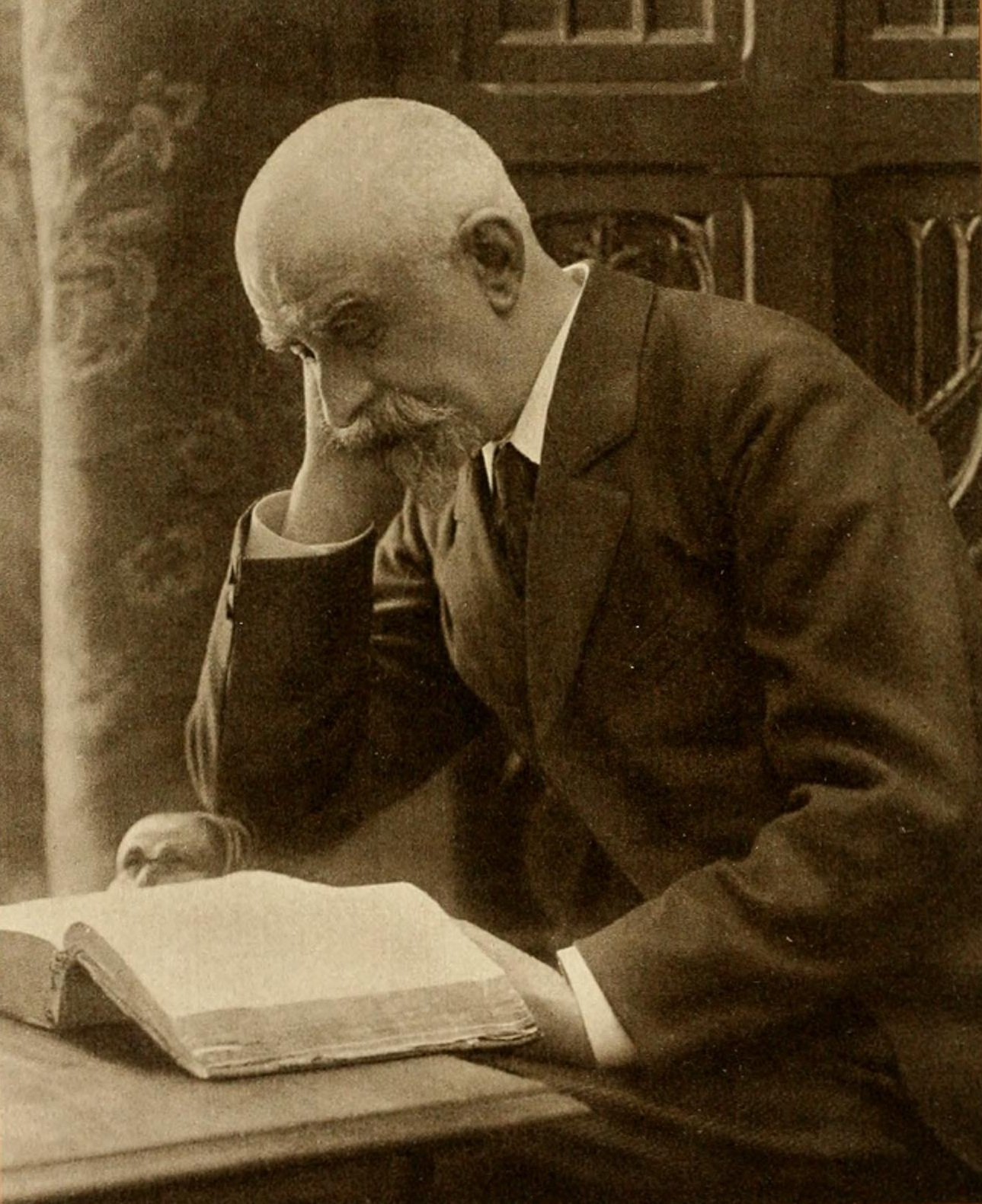 French writer J.K. Huysmans